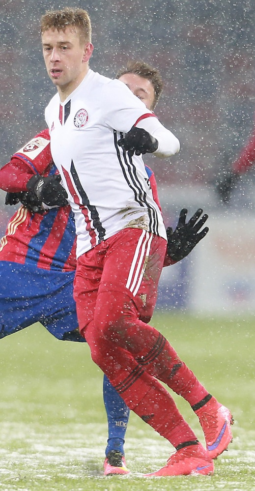 Janusz Gol with FC Amkar Perm in a game against PFC CSKA Moscow.